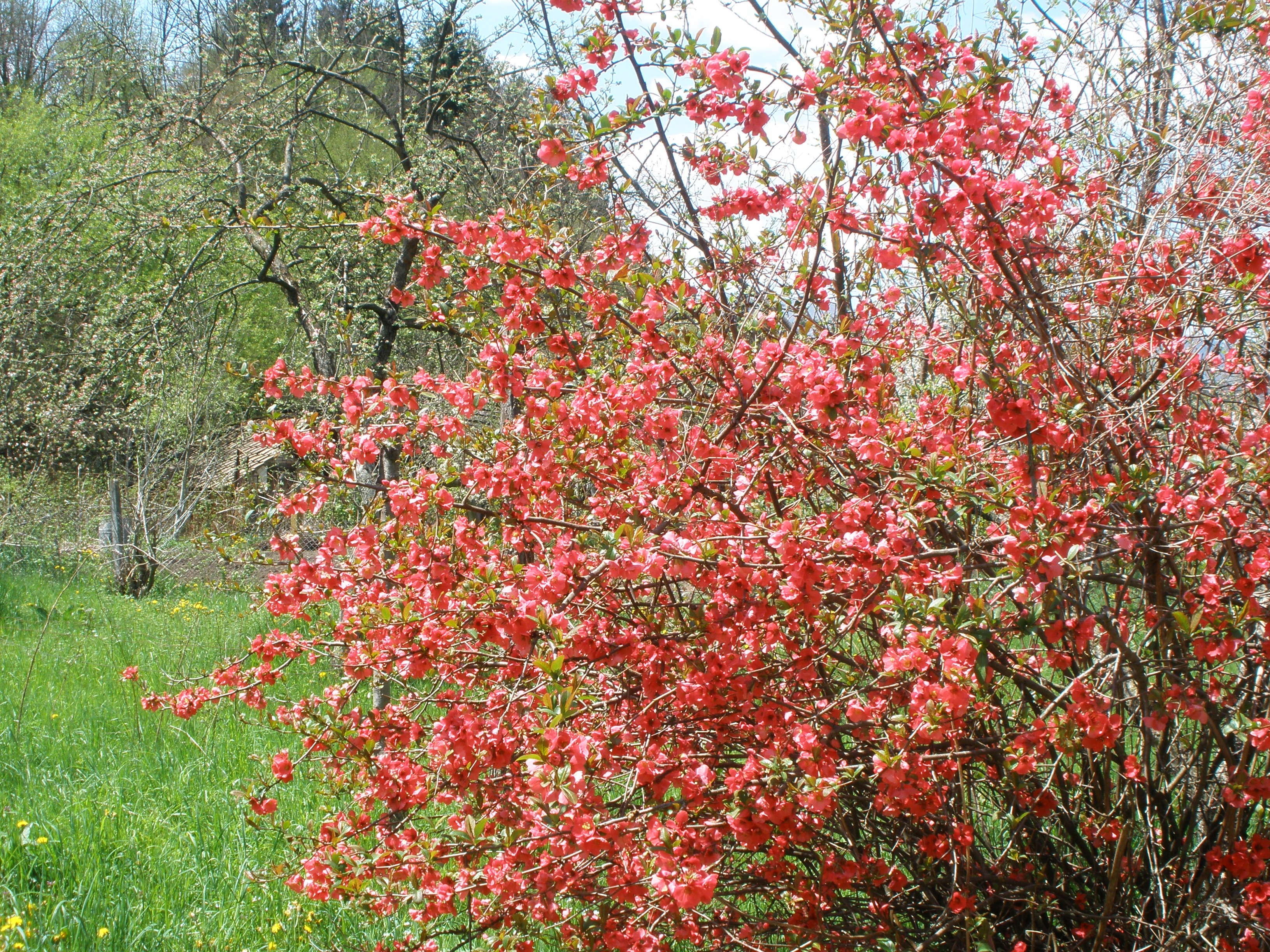 Chaenomeles